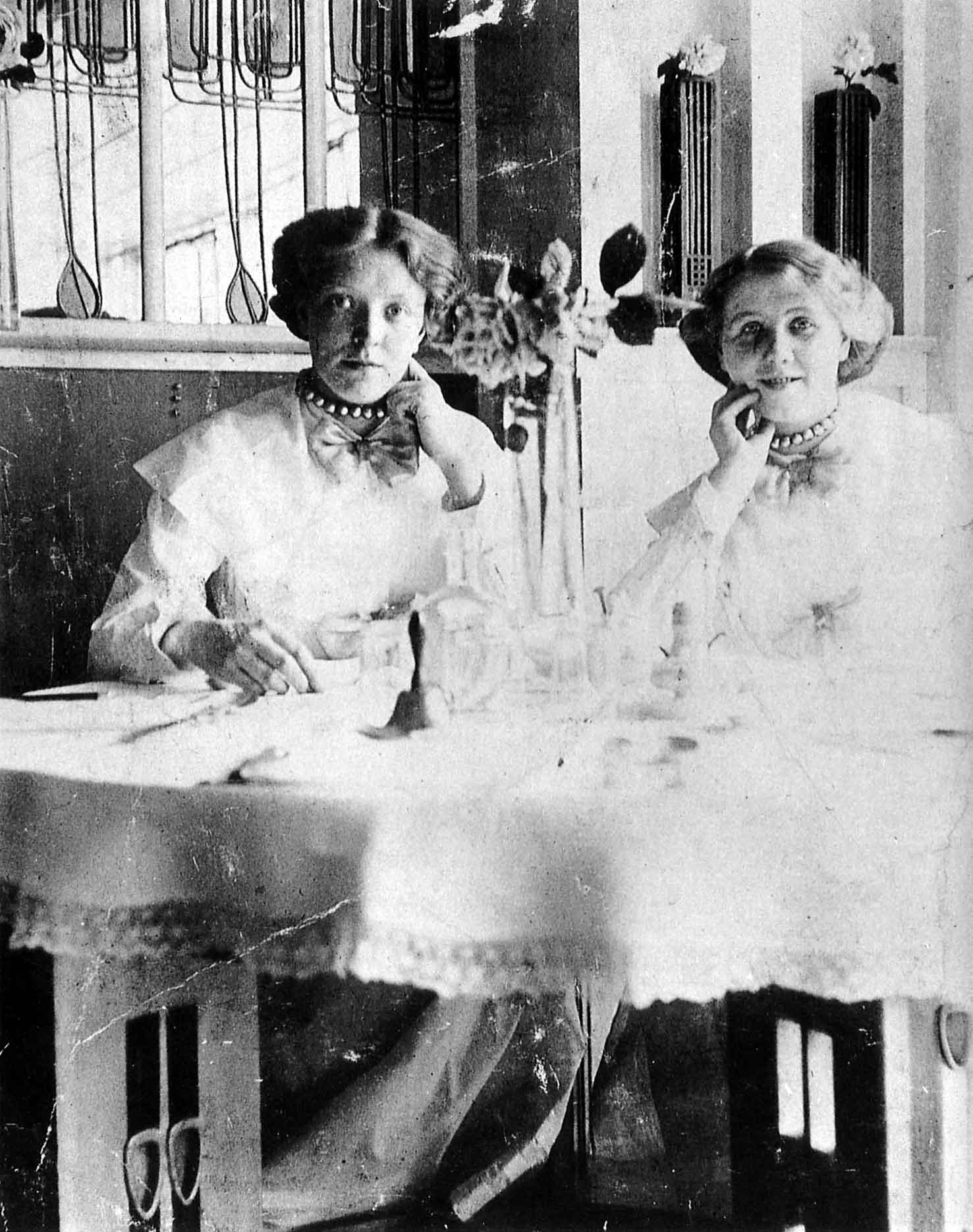 portrait of two waitresses in the Room DeLuxe at the Willow Tea Rooms on Sauchiehall Street owned by Kate Cranston